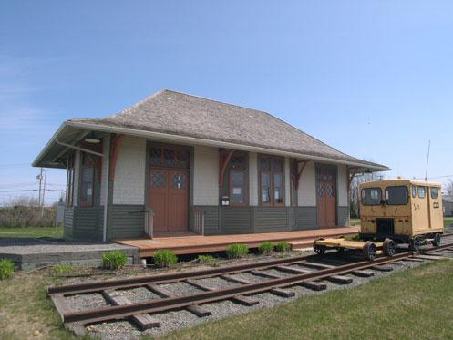 Old train station in Mont-Joli